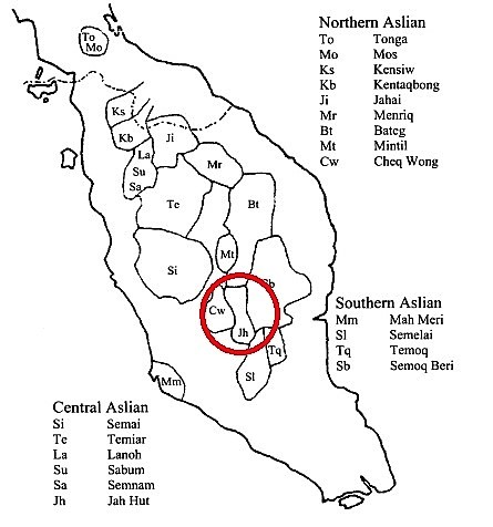 Image of location of Jah Hut Tribe